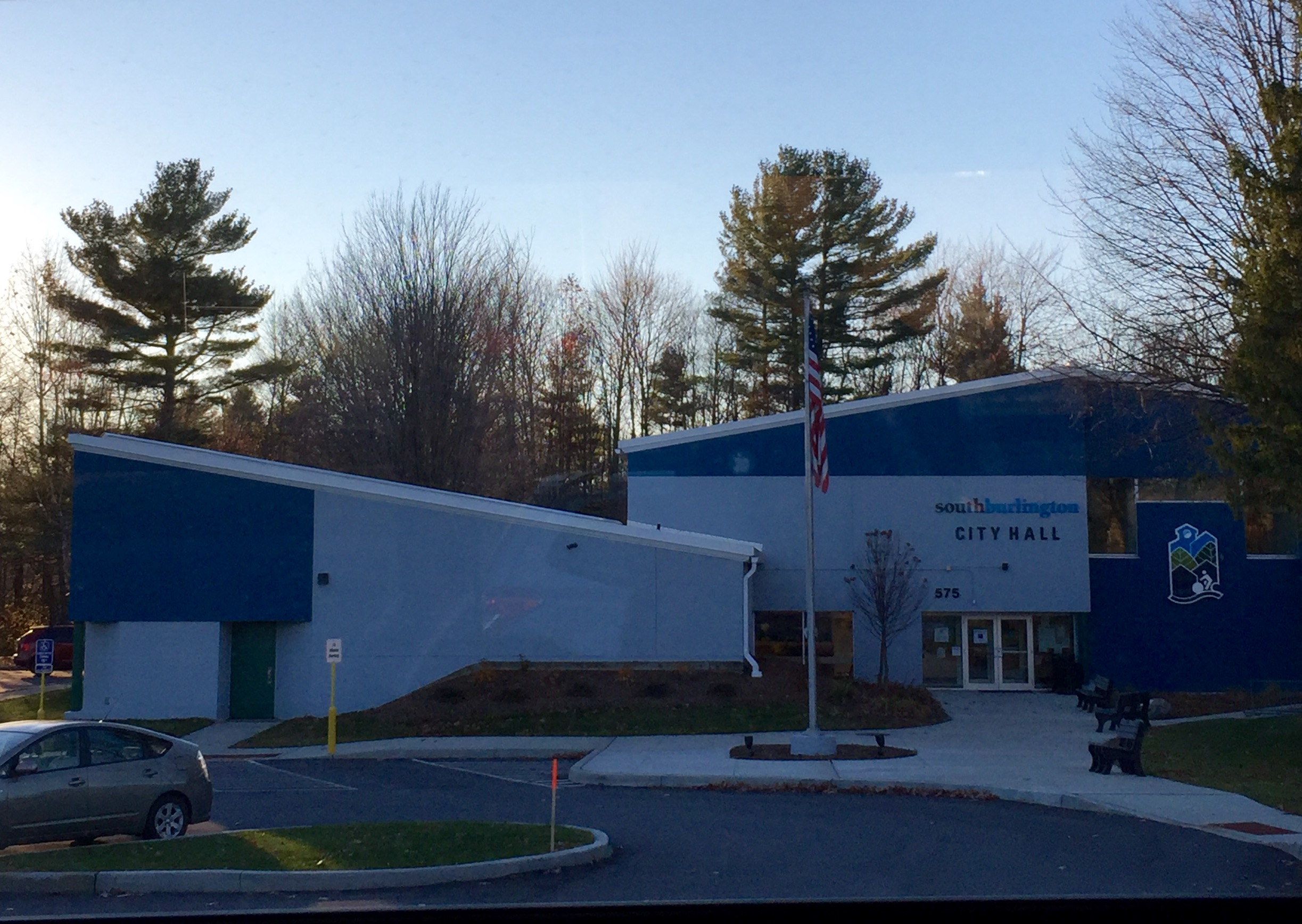 City hall of South Burlington, Vermont, USA viewed from Dorset Street.